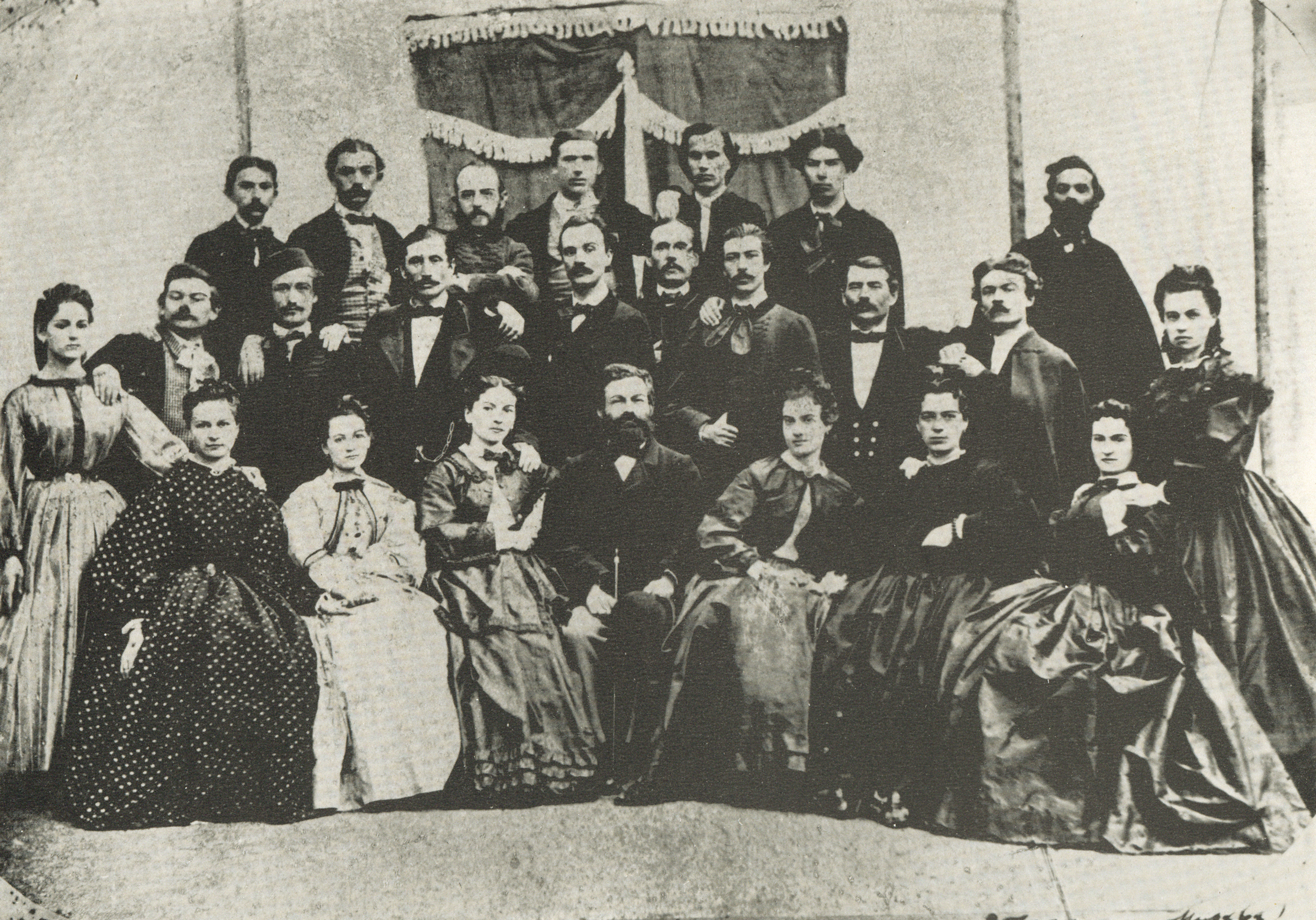 Part of the actors ensemble of the SNТ with a director, 1864 Srpski (latinica): Deo glumačkog Ansambla SNP sa upravnikom, 1864. Српски (ћирилица): Део глумачког ансамбла СНП-а са управником, 1864.